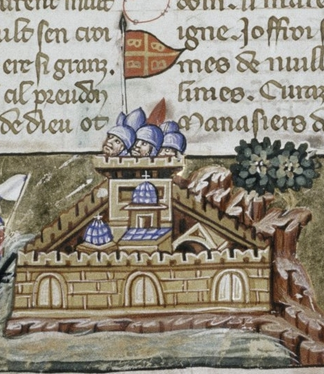 Representation of Constantinople with the Palaiologan-era flag of the Byzantine Empire